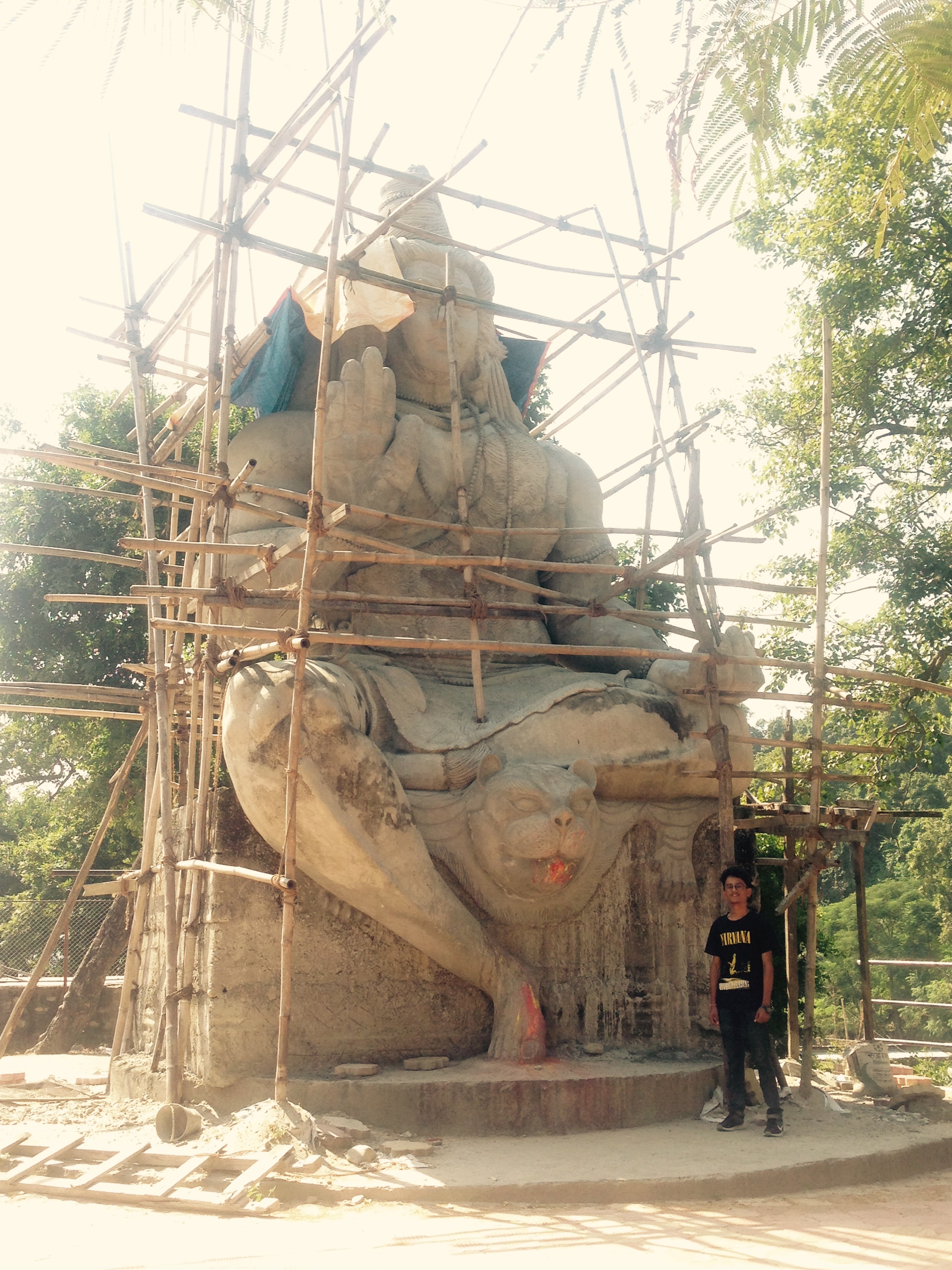 An underconstruction lord Shiva Statue at Nunthar, Chandrapur, Rautahat, Nepal.